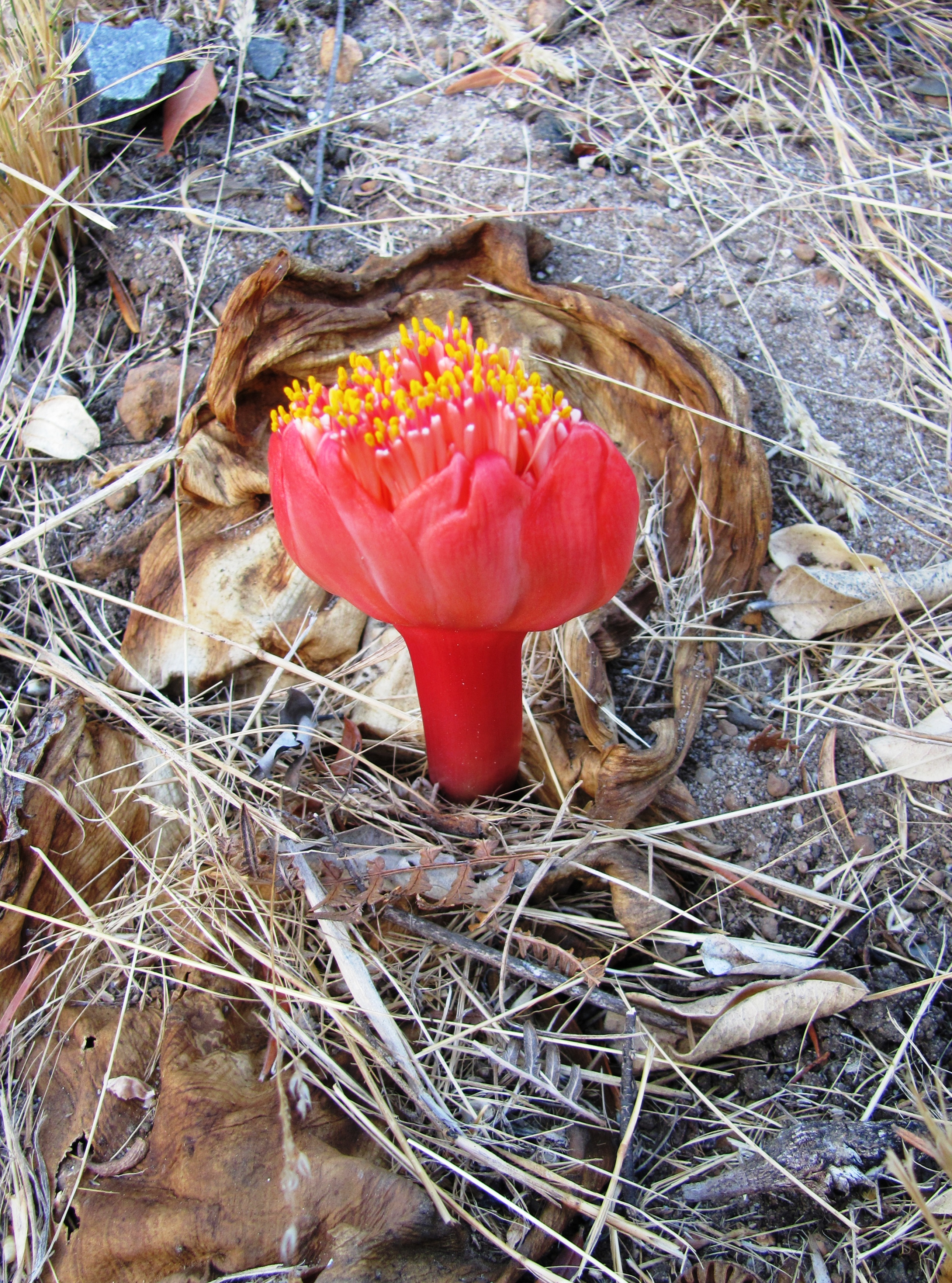 Haemanthus sanguineus. Geophyte plant of the Cape. South Africa.